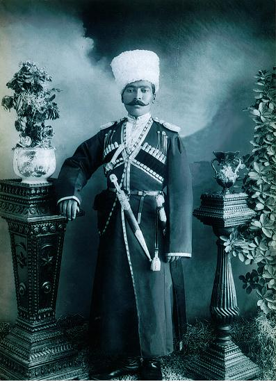 Yonge Colonel Hosseinpour